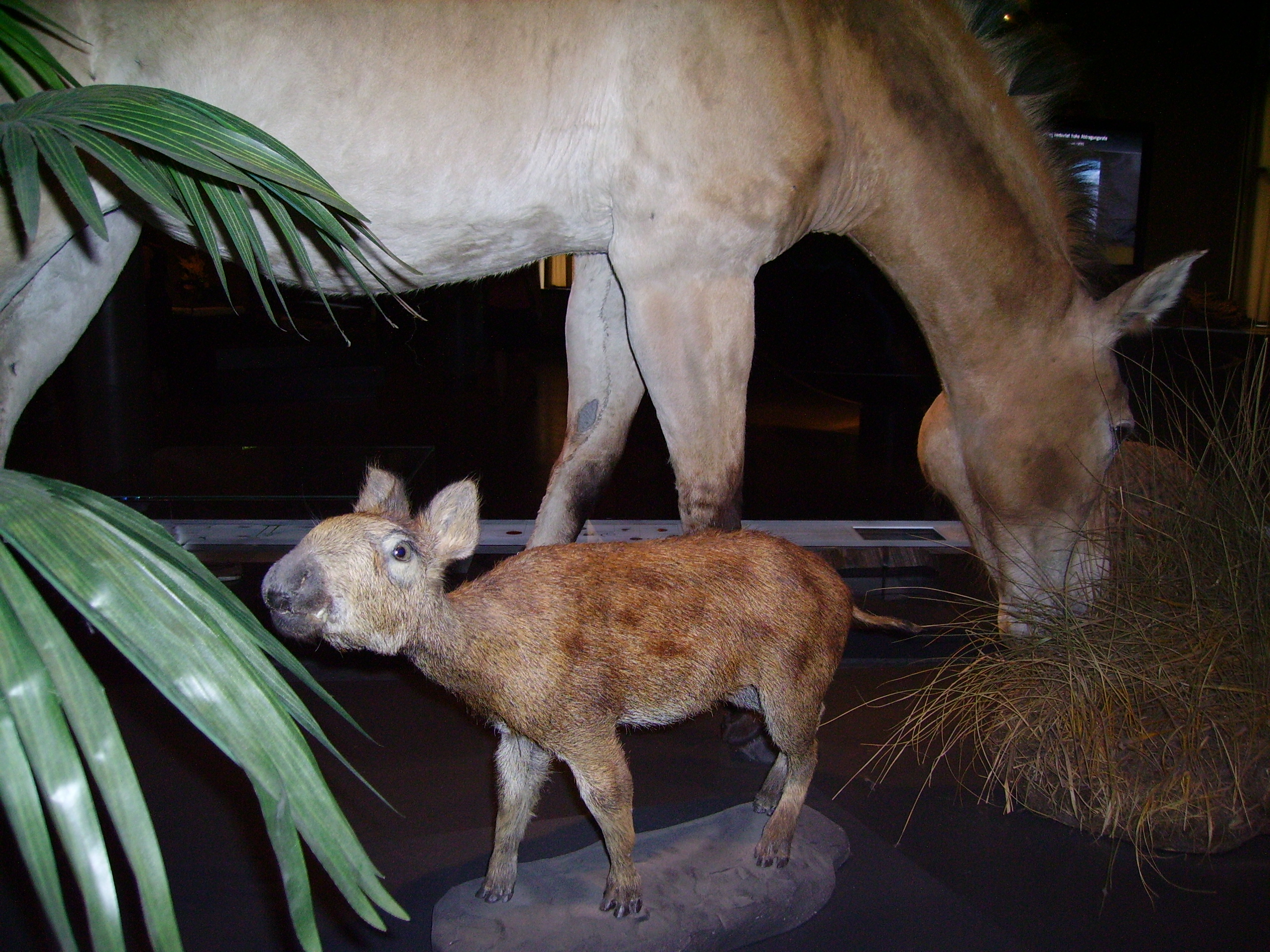 Precursor of the horse, model